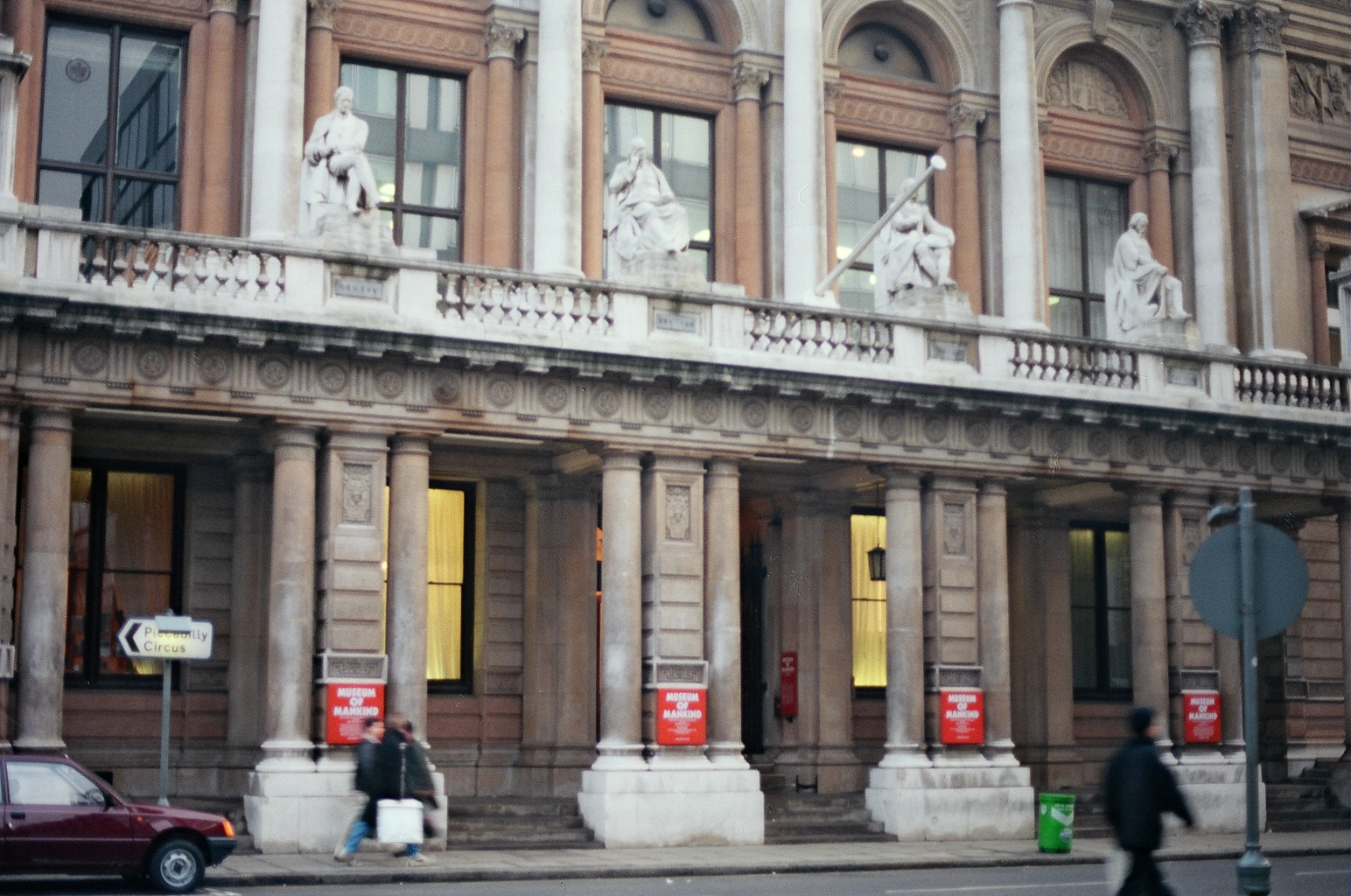 /2 - MUSEUM OF MANKIND LONDON 1987